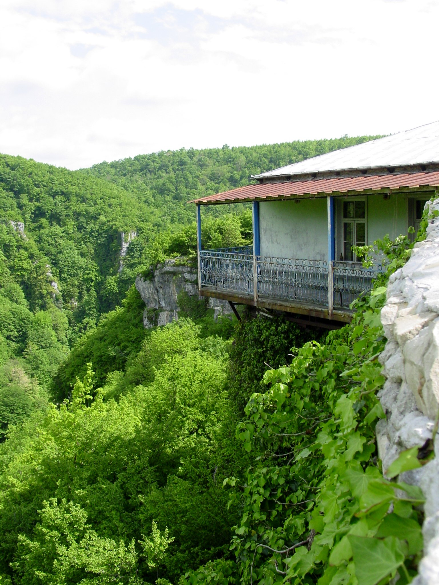 Living quarters of the Motsameta monastery overlooking the river.